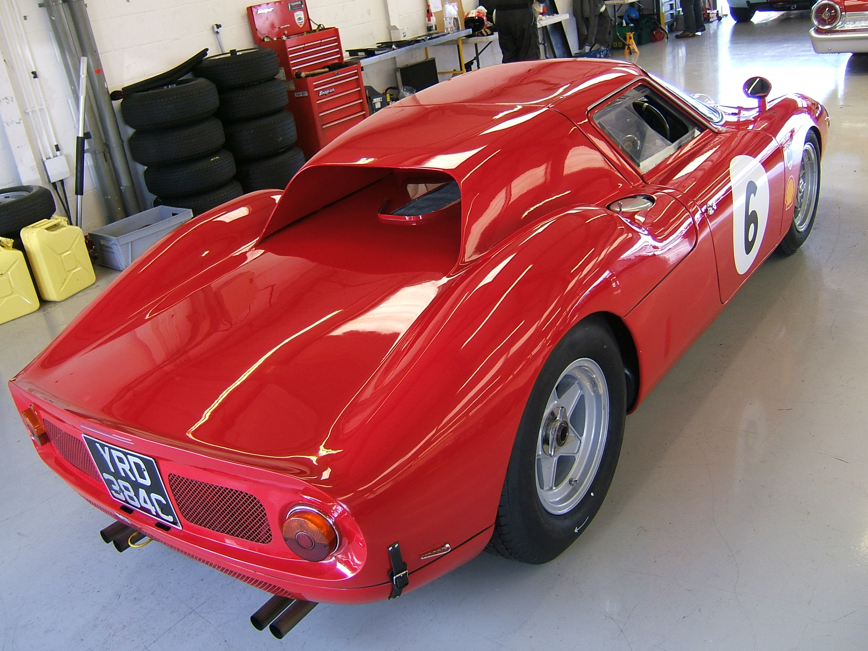 A Ferrari 250LM waiting to take to the track at Silverstone, July 2007.